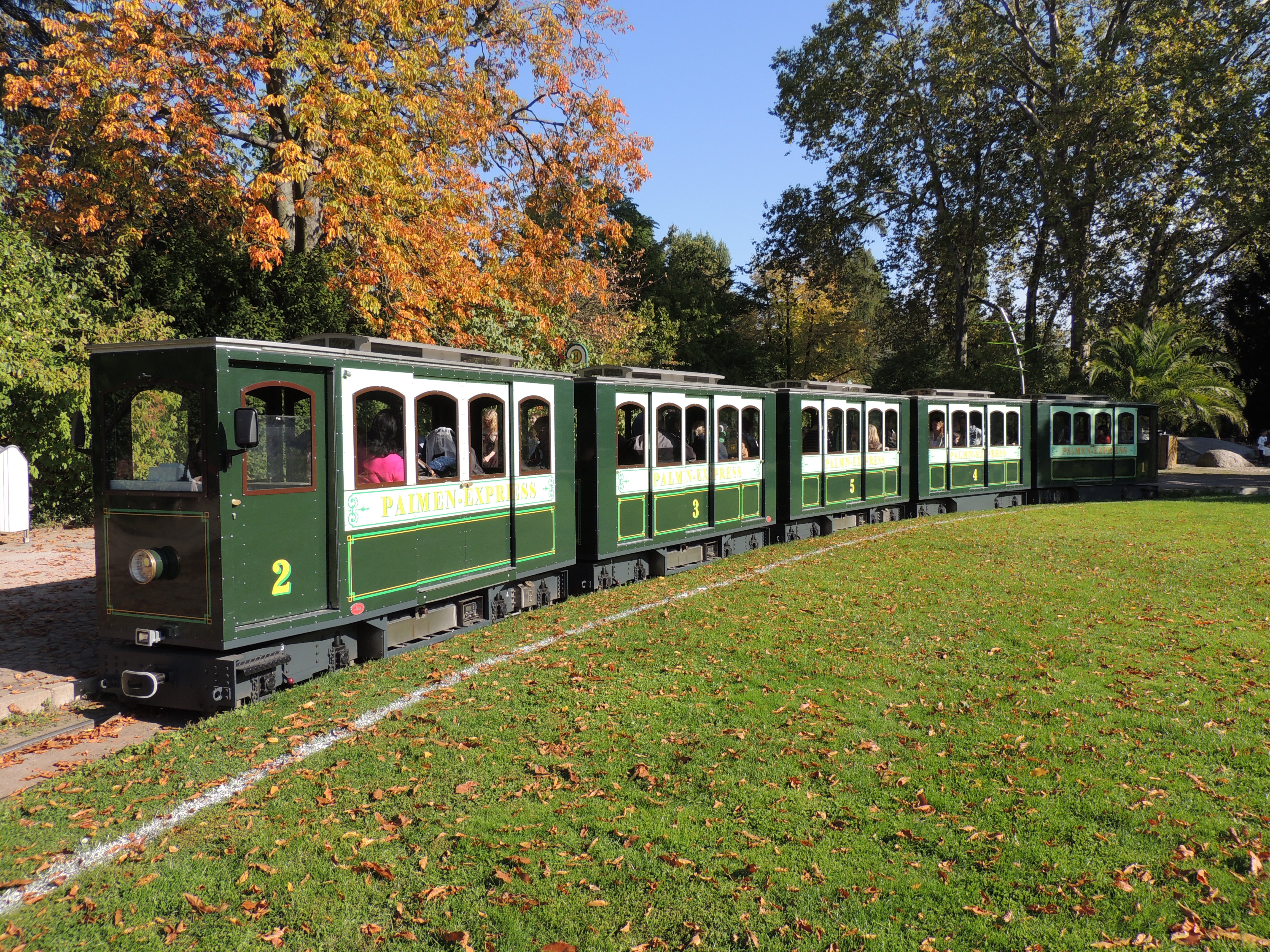 Ridable miniature railway Palmen-Express built in 2012 in the Palmengarten in Frankfurt on Main-Westend at the stop Spielwiese